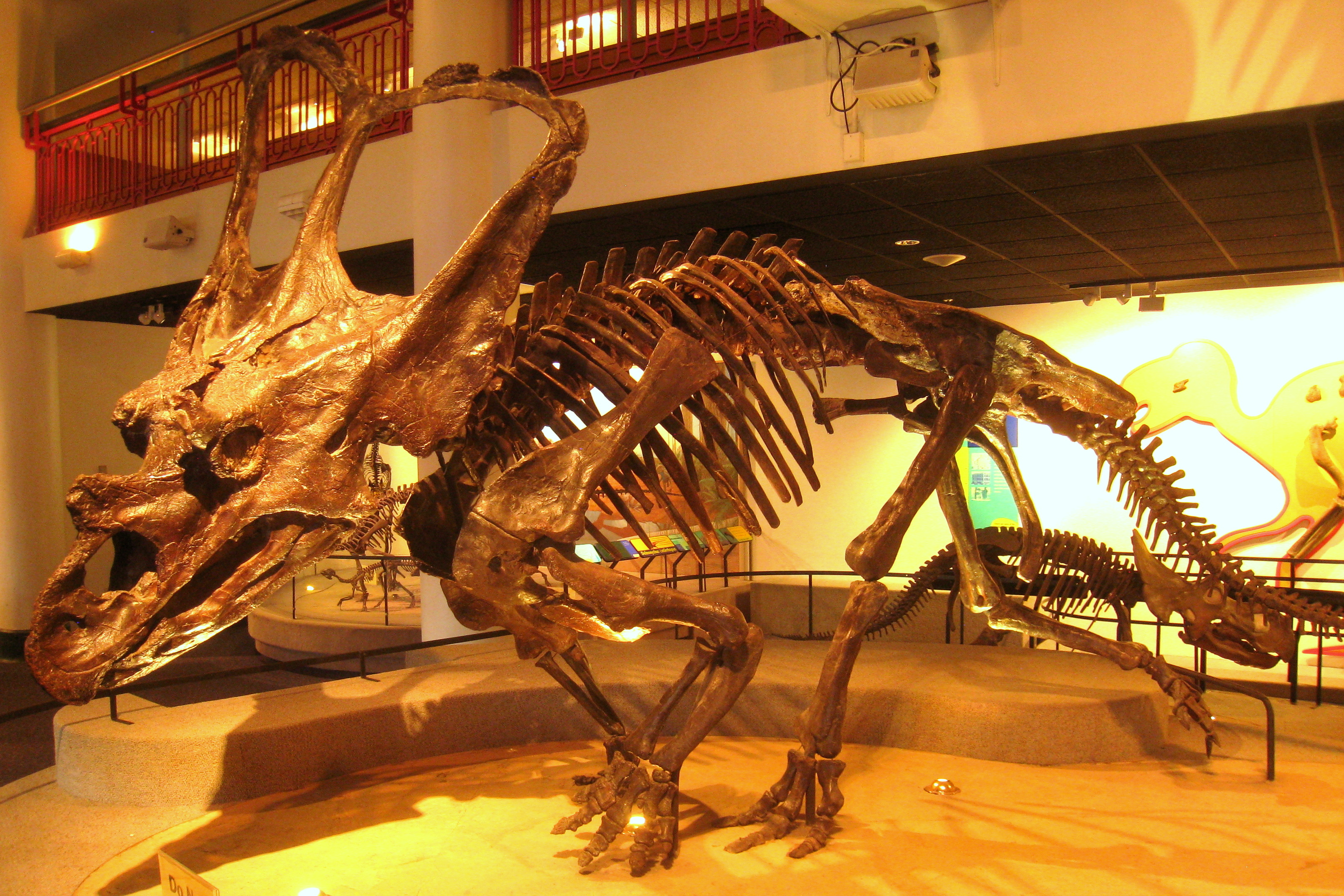 Chasmosaurus belli fossil. Exhibit in the Academy of Natural Sciences, 1900 Benjamin Franklin Parkway, Philadelphia, Pennsylvania, USA. Photography was permitted in this area of the museum without restrictions.